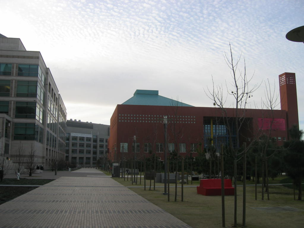 Taken by User:Jiang in San Francisco, CA, USA on January 11, 2006.